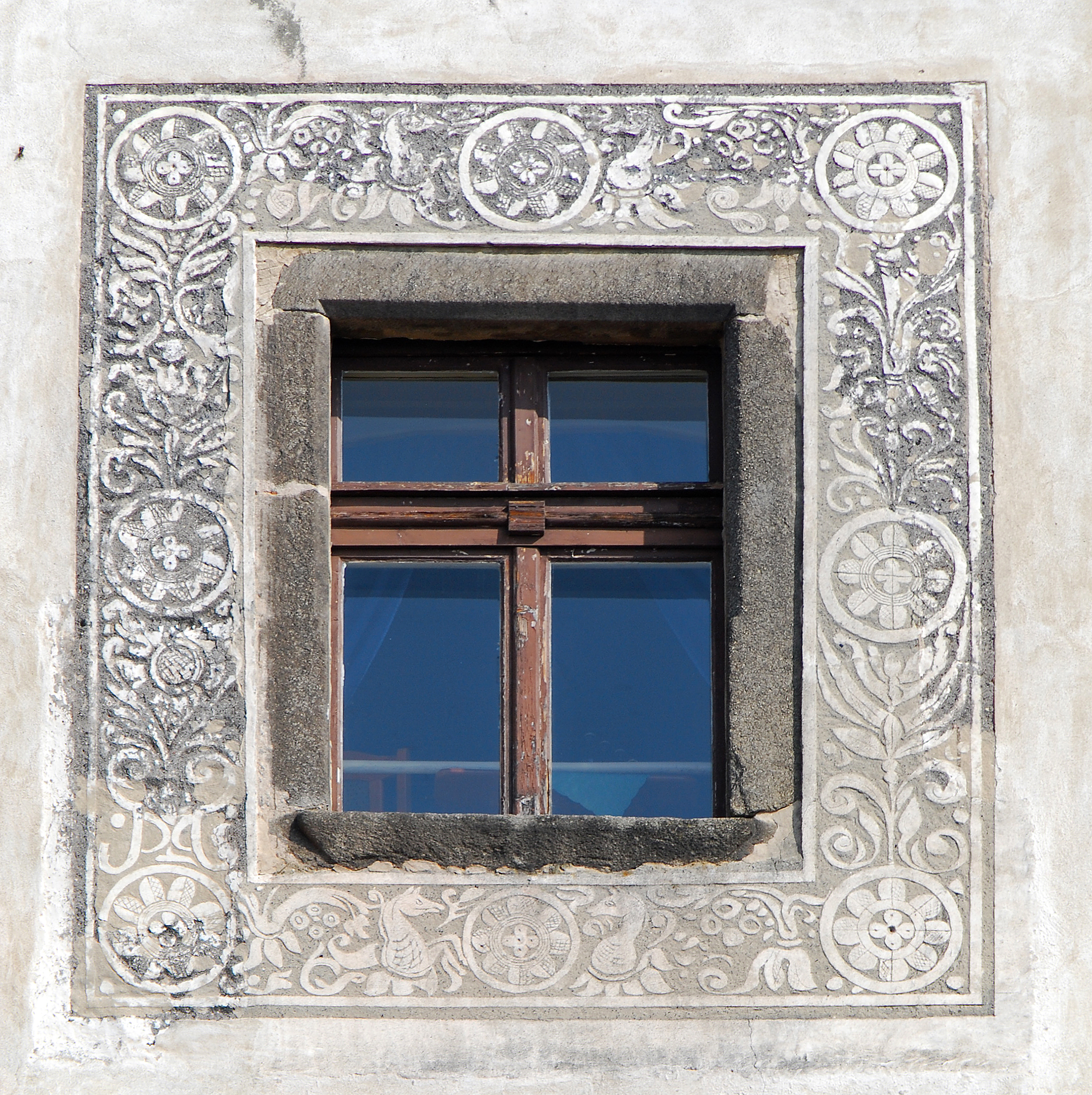 Otmuchów Castle